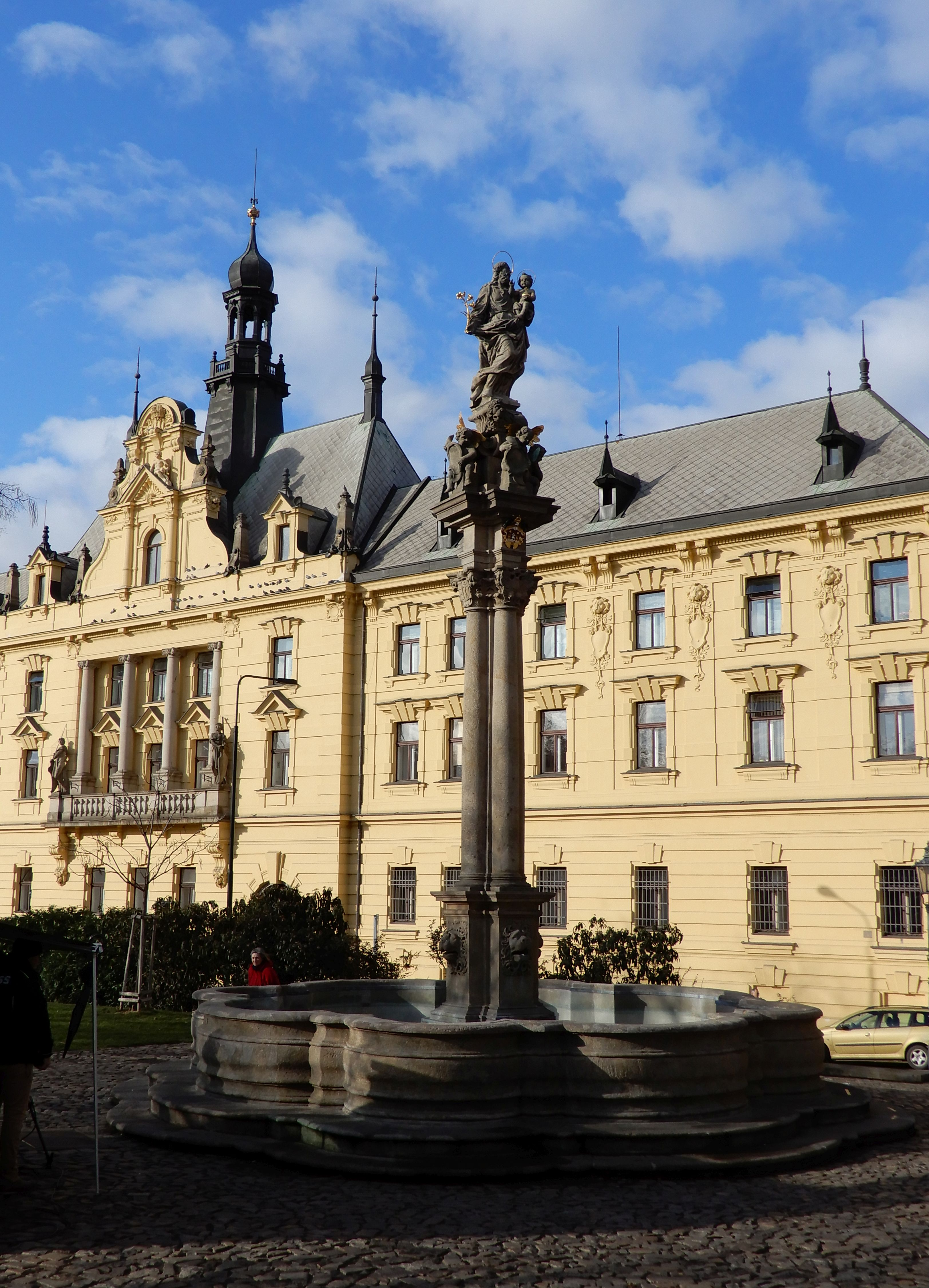 Plague column with St. Joseph and Child Jesus, Prague Karlovo square